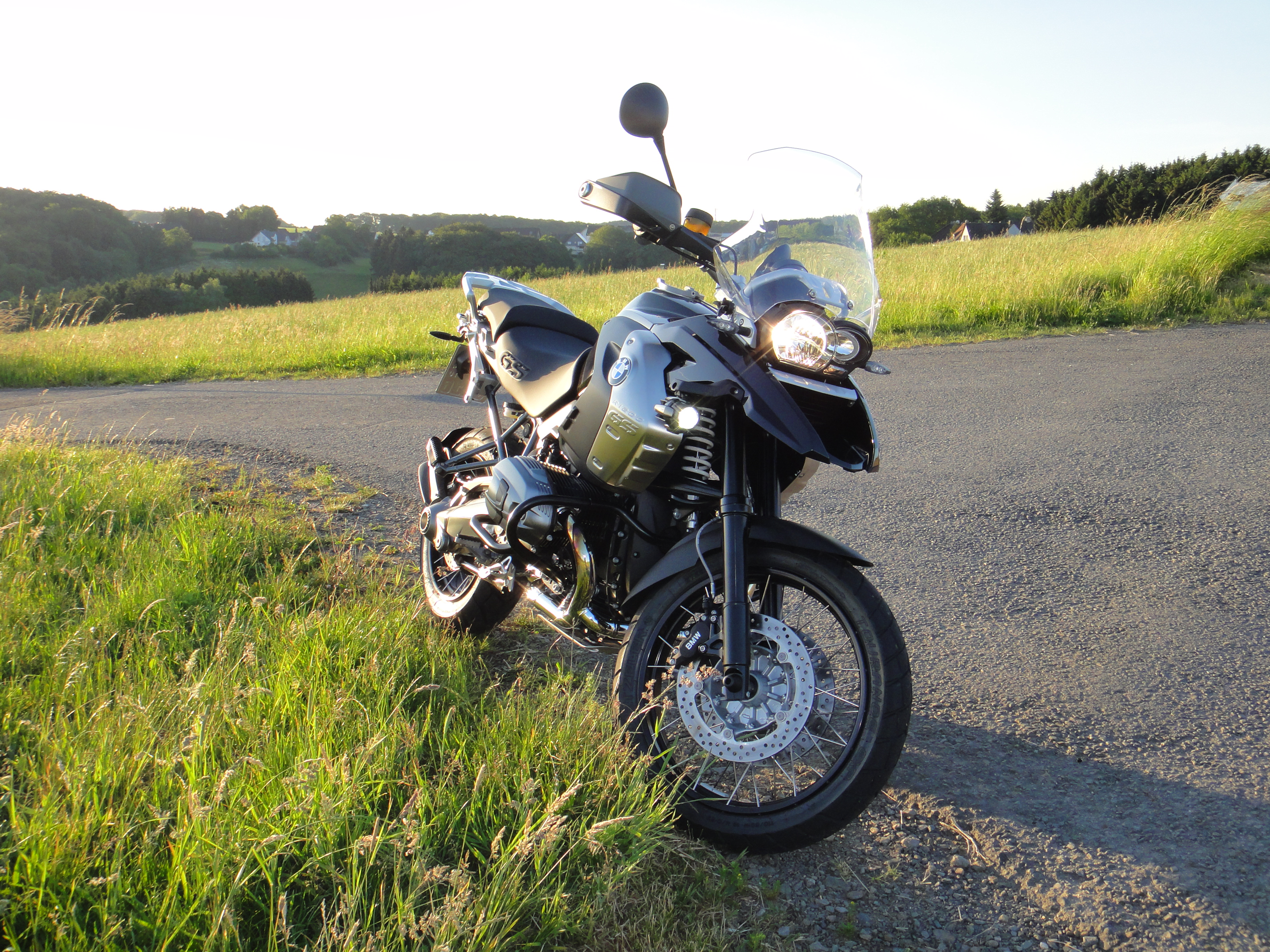 BMW R 1200 GS Motorcycle, Modell 2011 Triple Black